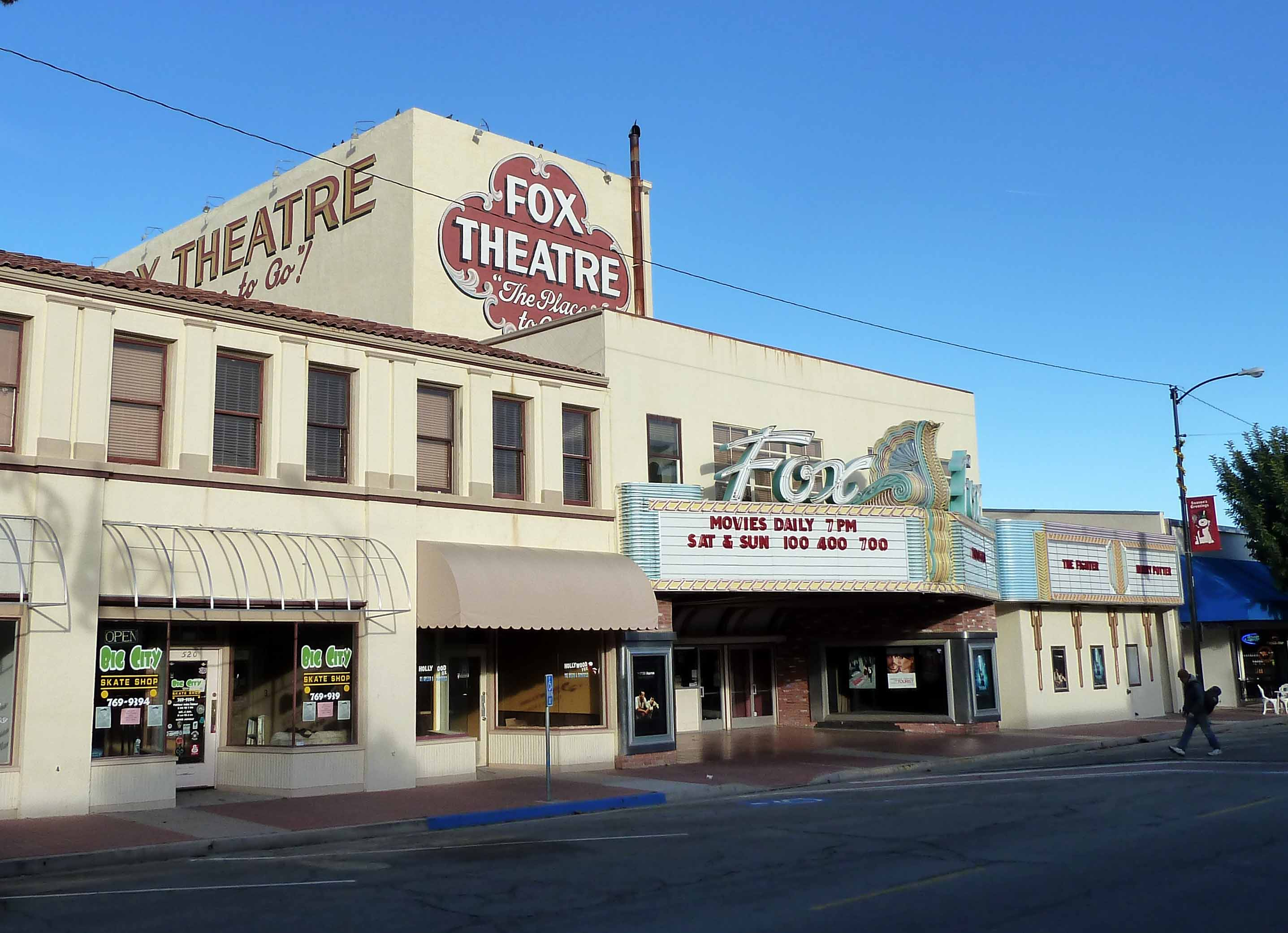 Taft Fox Theatre — a Fox Theatre cinema in Taft, central California.